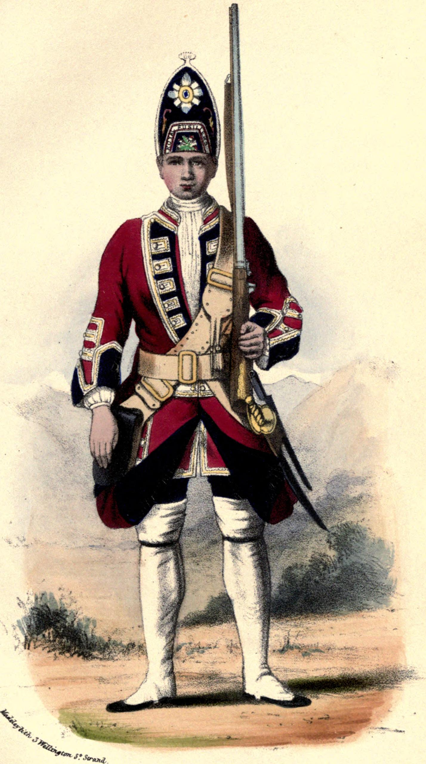 Uniform of the 21st Foot in 1742.